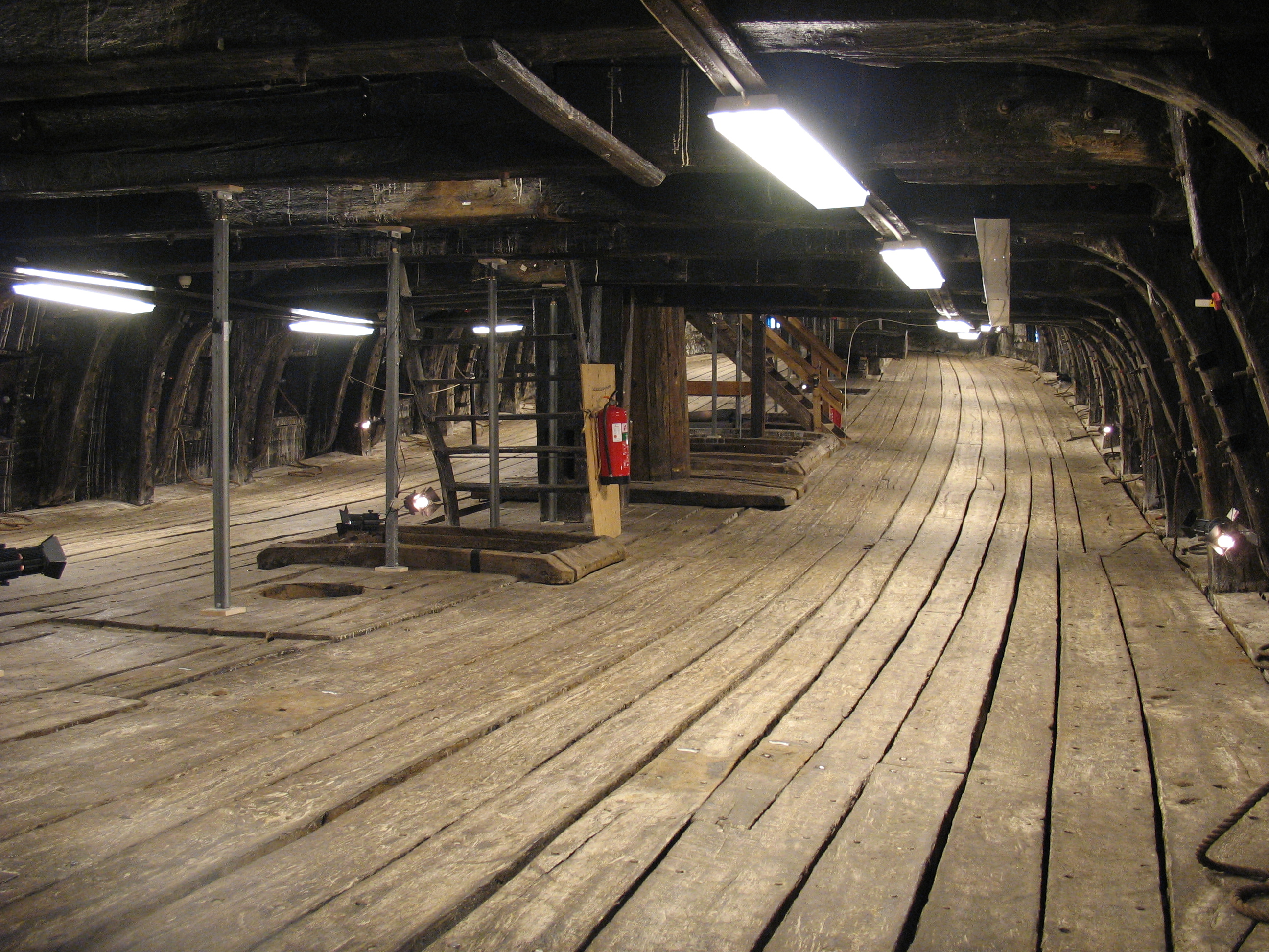 The lower gun deck of the warship Vasa, displayed in the Vasa Museum in Stockholm, Sweden. Picture taken inside the ship looking forward.